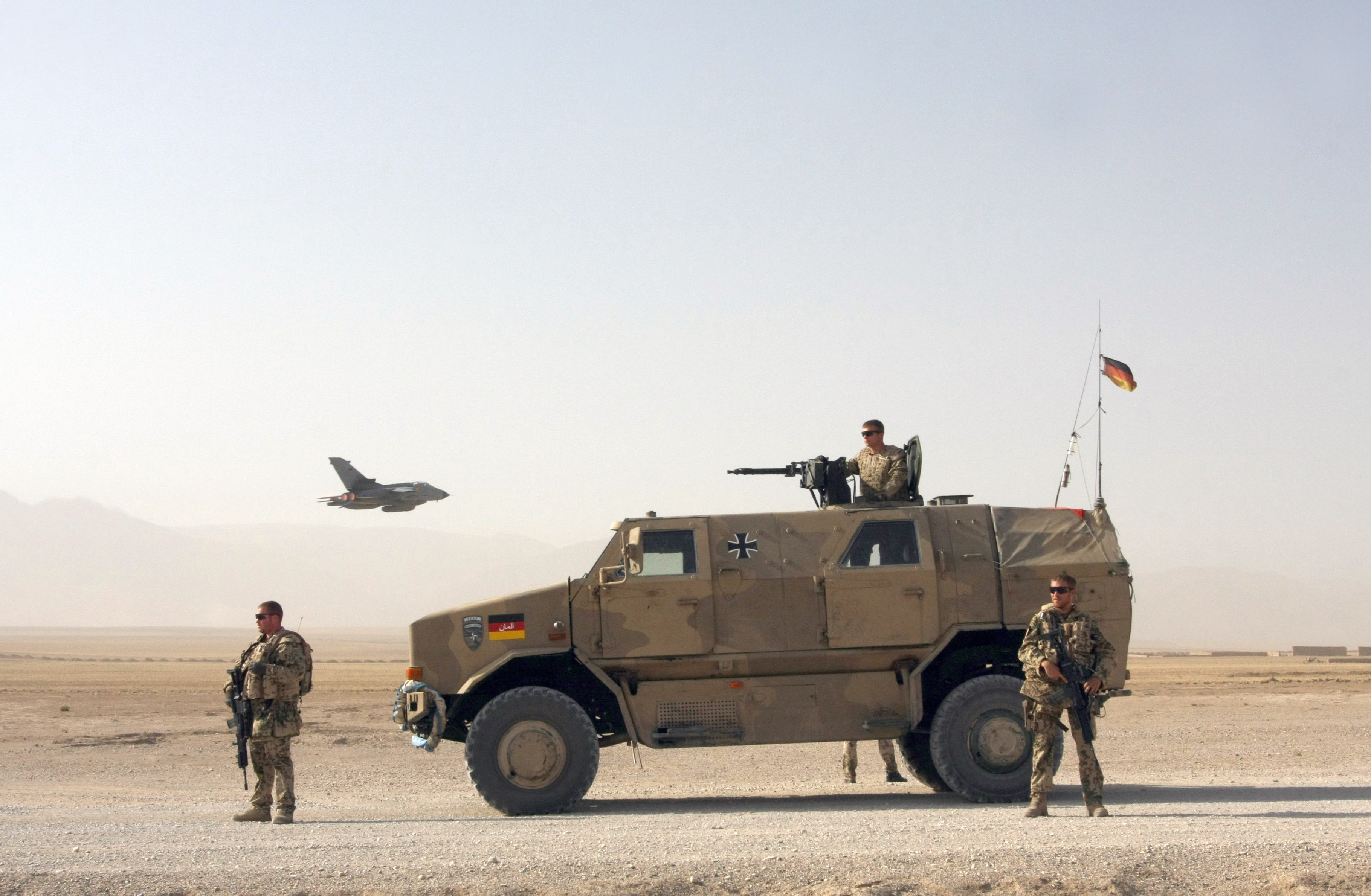 German forces near Camp Marmal during a patrol outside of Mazar-e-Sharif, Afghanistan November 2009. Germany is part of the 48-nation military coalition assisting the government of Afghanistan in the establishment and maintenance of a safe and secure environment, thereby facilitating the nation's reconstruction and stability. (ISAF Public Affairs Photo)